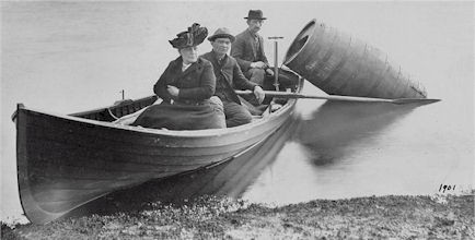 Annie Edson Taylor preparing her historic trip over Niagara Falls